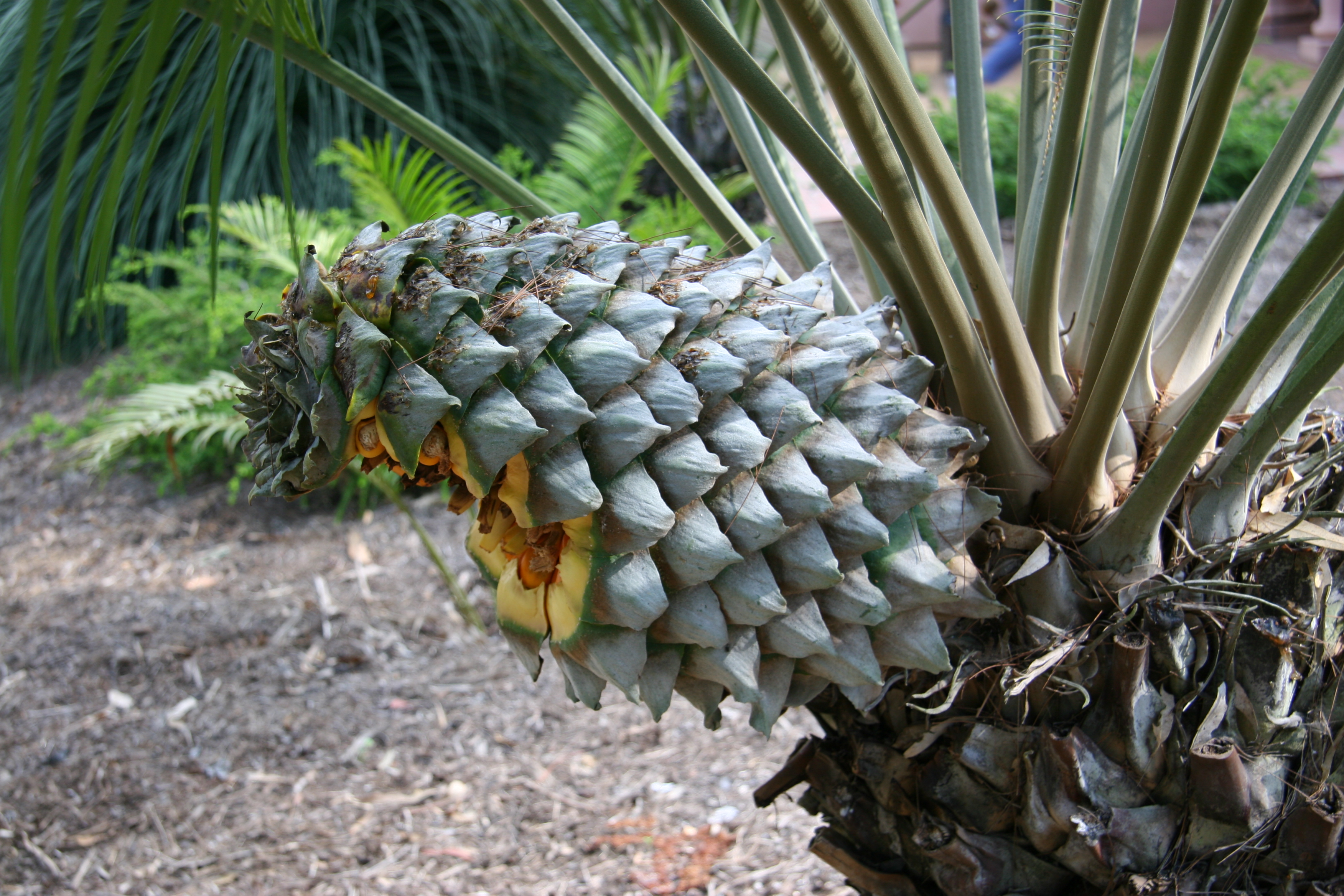 Lepidozamia peroffskyana — with cone. In the 'Cycad Garden' of Lotusland — in Montecito, near Santa Barbara in southern California. Zamiaceae family; a cycad species endemic to eastern Australia. Credits Photographed at Lotusland Santa Barbara, California; 15 Sep 2006. Northwest Horticulture Society Santa Barbara Tour.